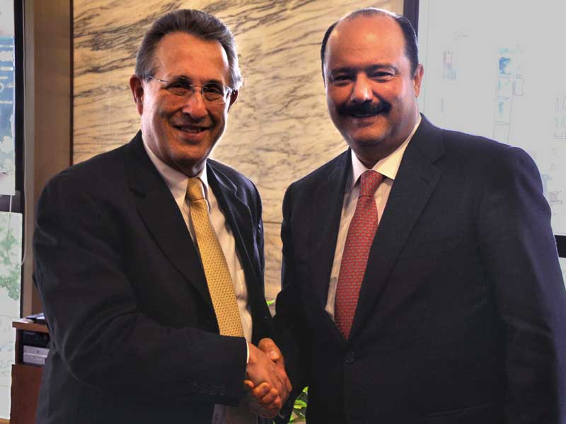 United States Ambassador Earl Anthony Wayne and Governor César Duarte Jáquez of Chihuahua (right) at the U.S. Embassy in Mexico City.